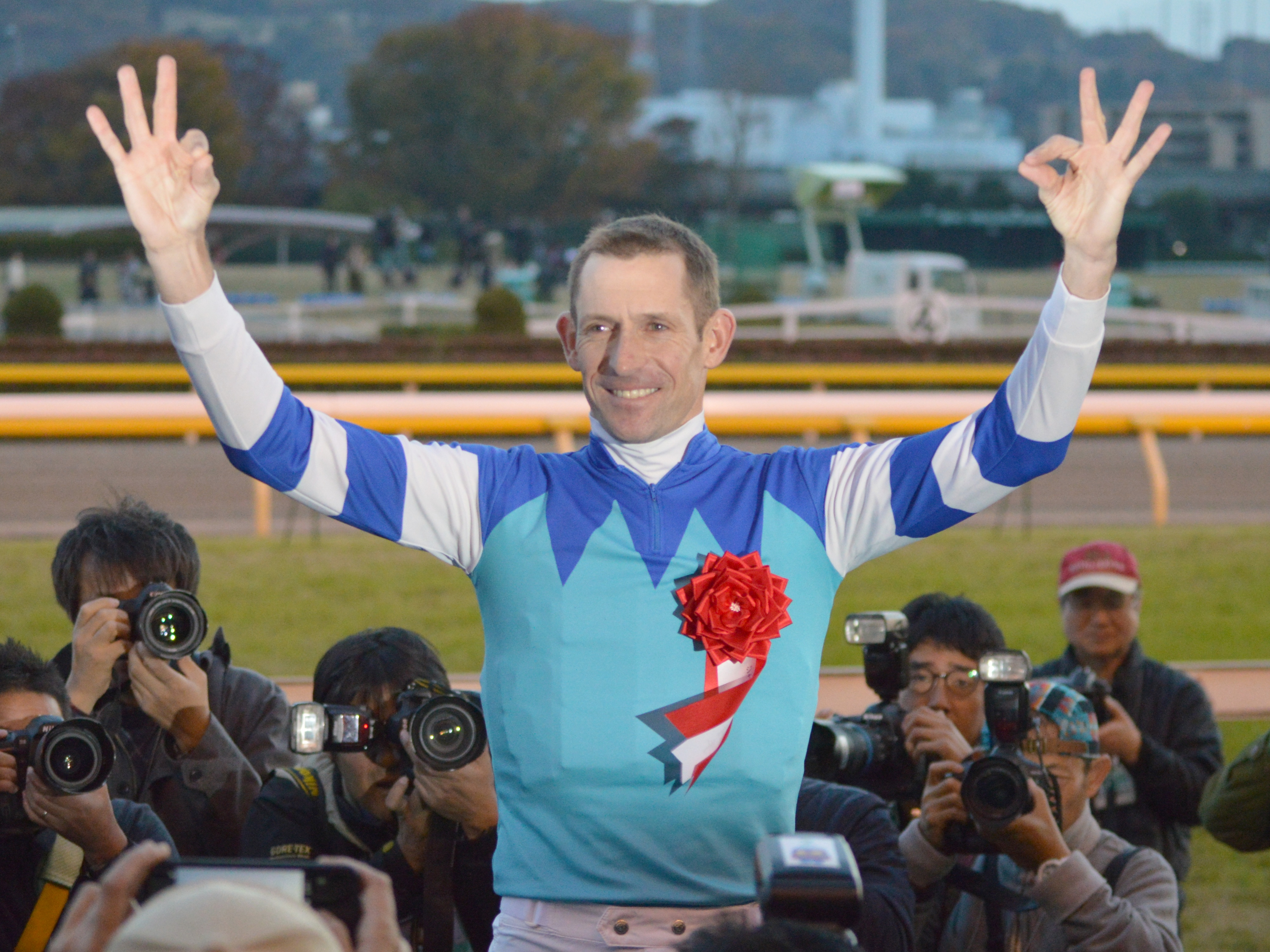 Hugh Bowman jockey receiving an interview at the Japan Cup awards ceremony.